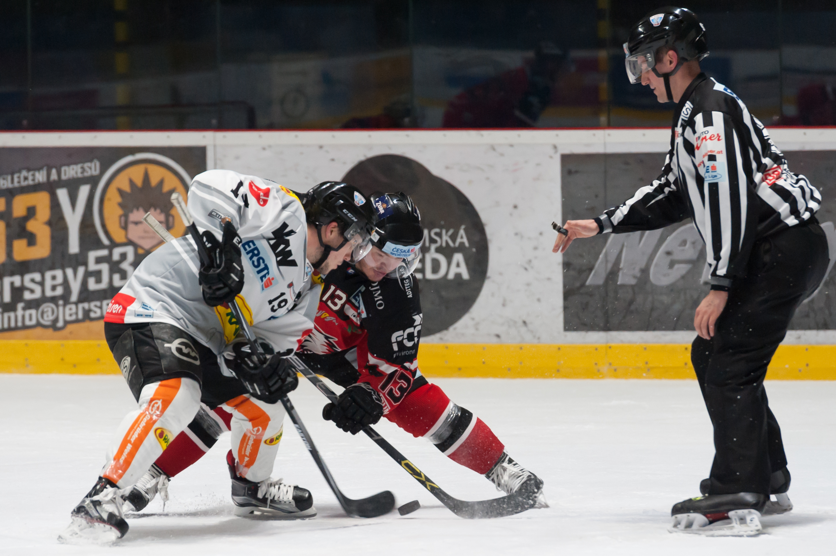 EBEL Orli Znojmo vs. Dornbirner EC 2016-03-06